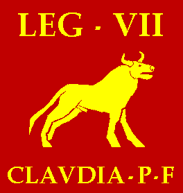 Signum of Legio VII Claudia, simplified reconstruction according to a coin of Gallienus